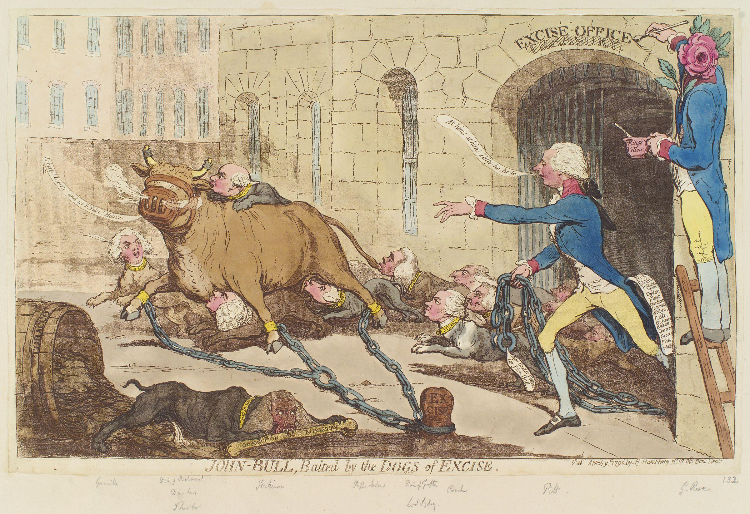 John-Bull, baited by the dogs of excise, by James Gillray (died 1815), published 1790. All images in this batch have been confirmed as author died before 1939 according to the official death date listed by the NPG.